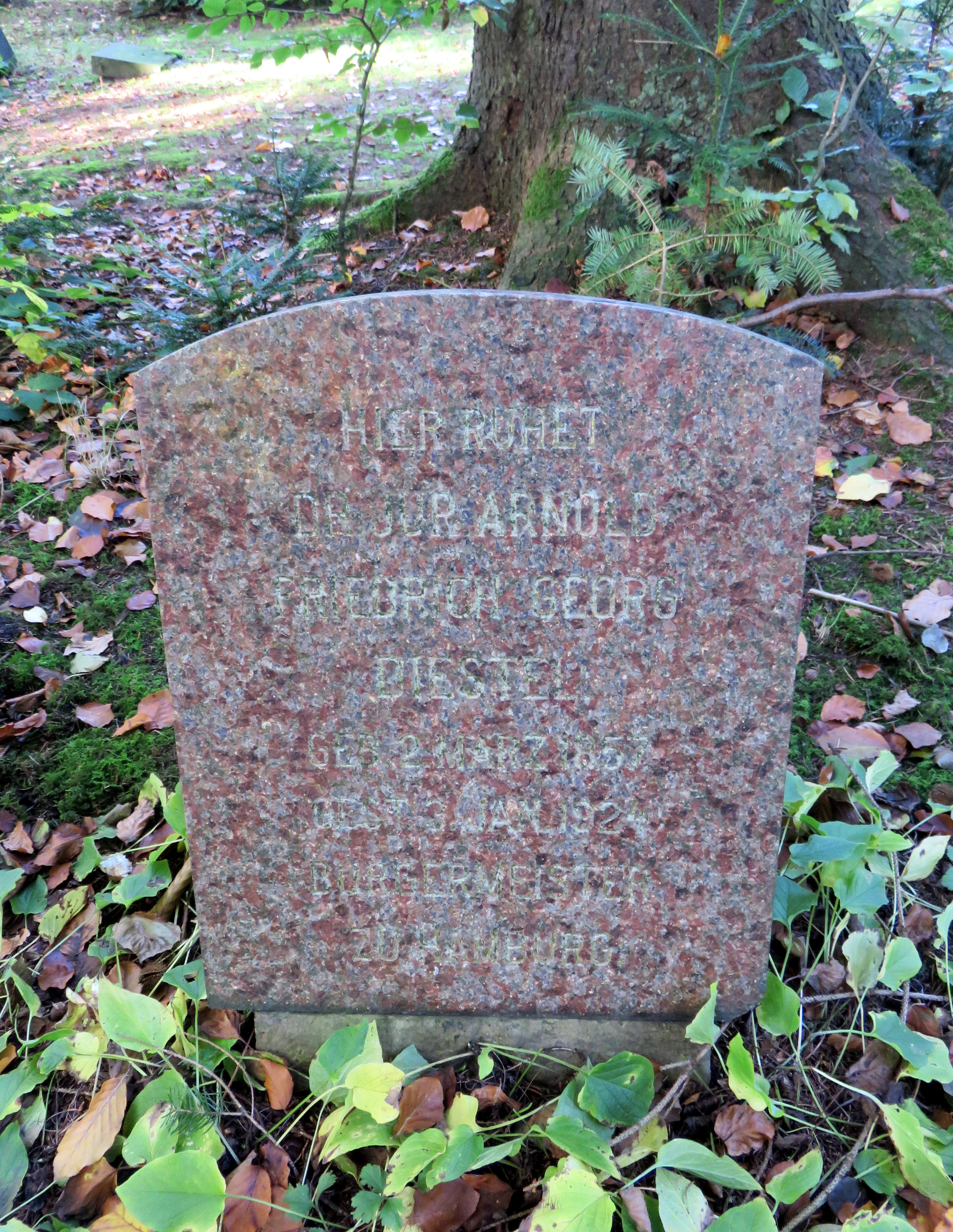 Gravestone for German politician and Hamburg mayor Arnold Diestel, located on Hamburg Ohlsdorf Cemetery.